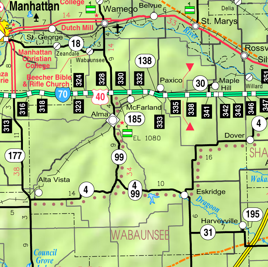 This map of Wabaunsee County, Kansas, USA, is copied at a resolution of 300 pixels/inch from the original PDF file.